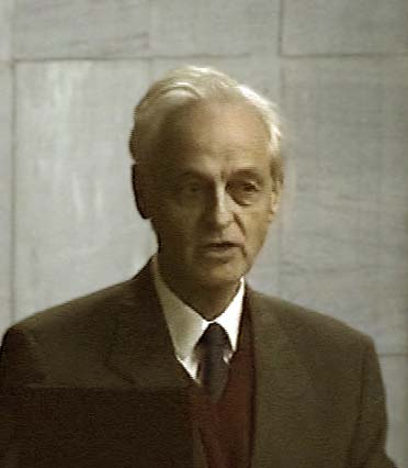 Márton Voith metallurgical engineer, professor, University of Miskolc, Hungary Captured frame from own video film